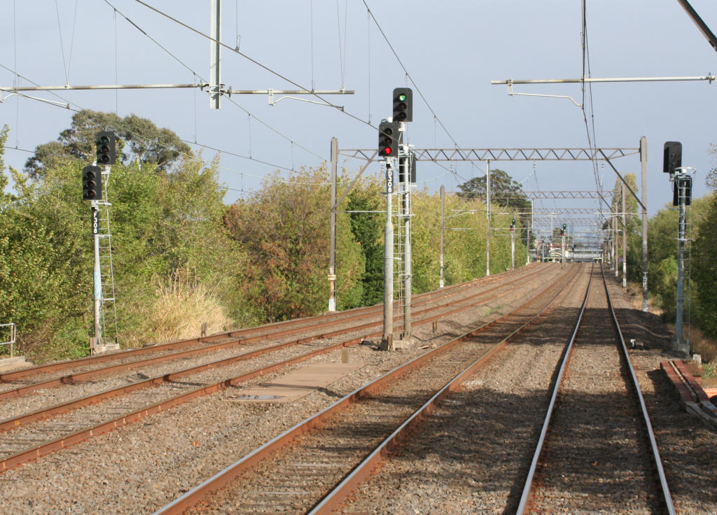 Four track section of the railways of Melbourne, near Caufield station, showing signalling and electrification stanchions.